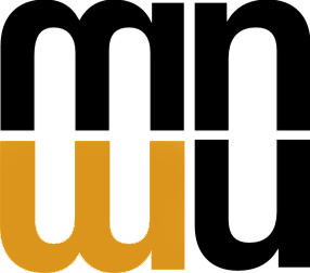 Graphic logo of MNMA, Jagodina